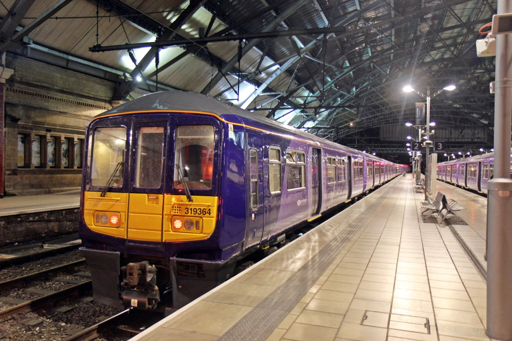 Northern Electrics Class 319 319364, platform 2, Liverpool Lime Street railway station